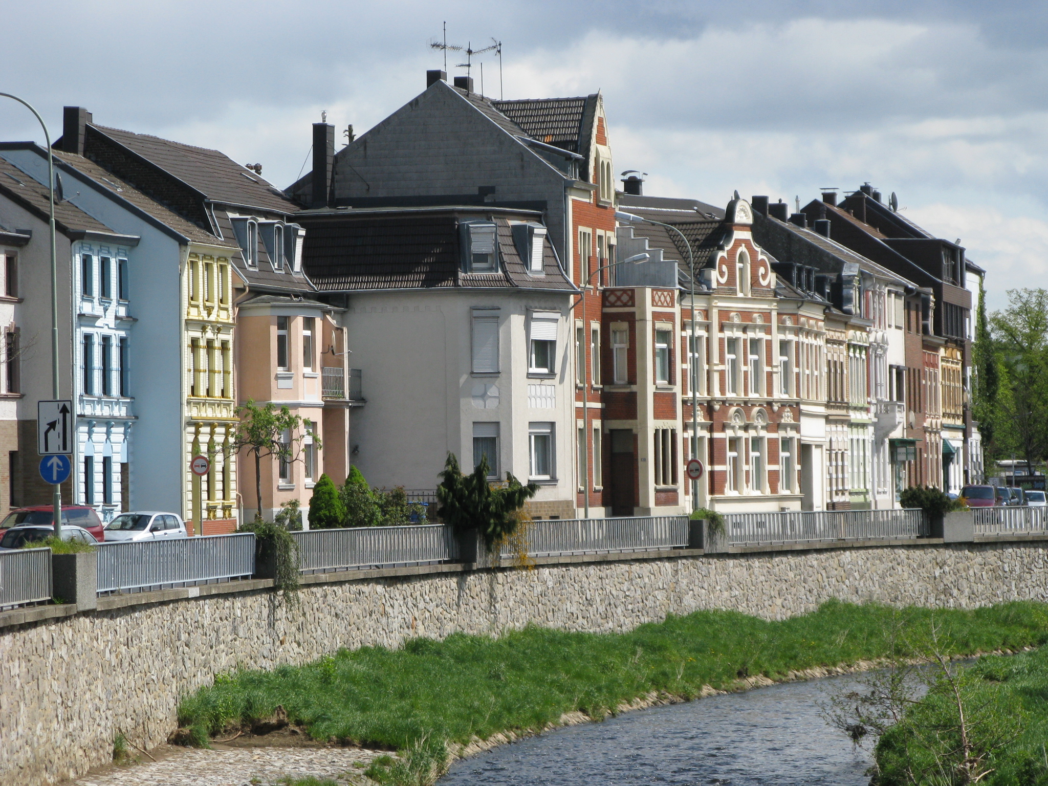 Eschweiler, Indestraße (previously Schützenstraße), 19th century houses (restored)